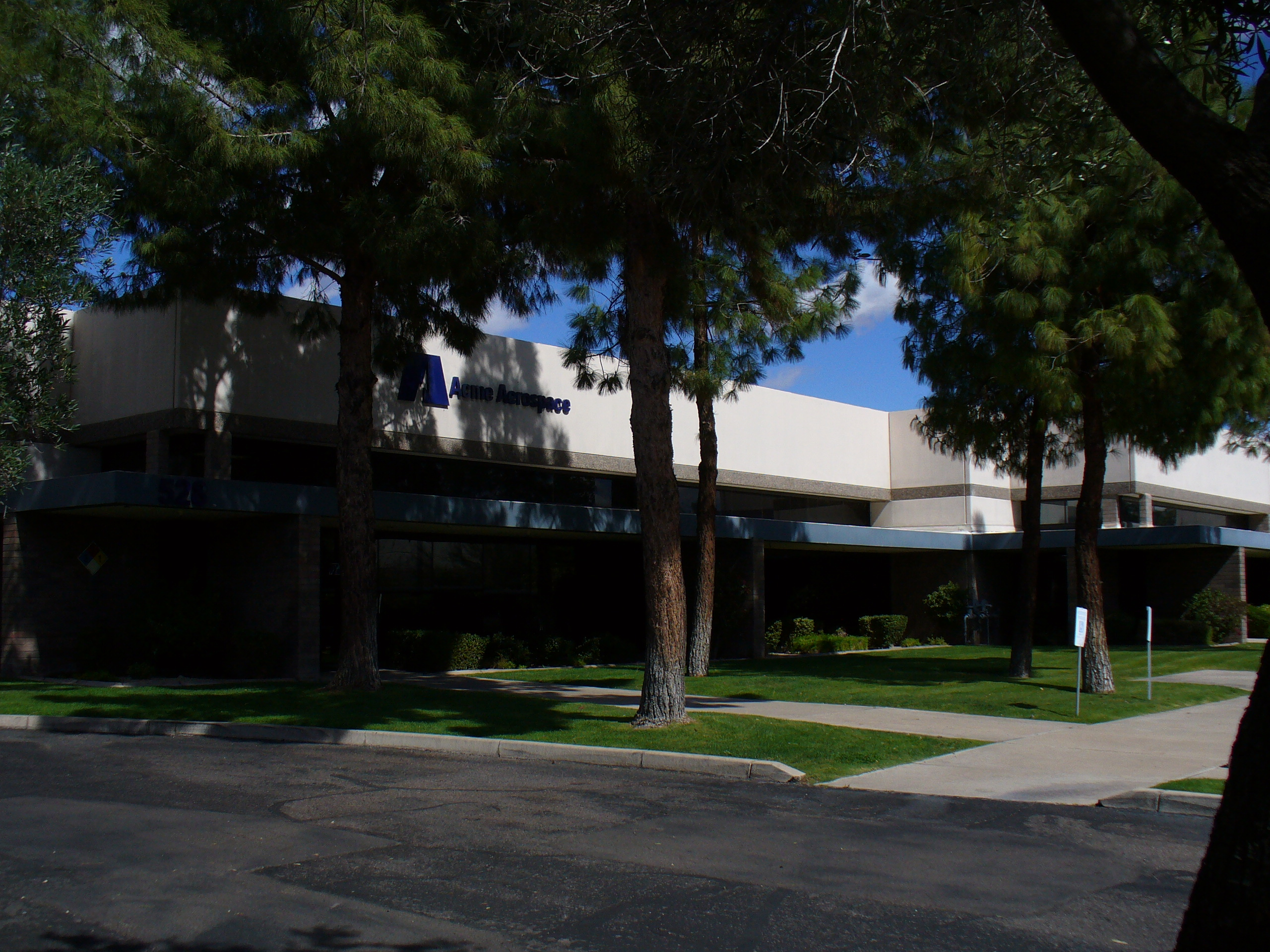 Photo of front of Acme Aerospace in Tempe, Arizona, United States.